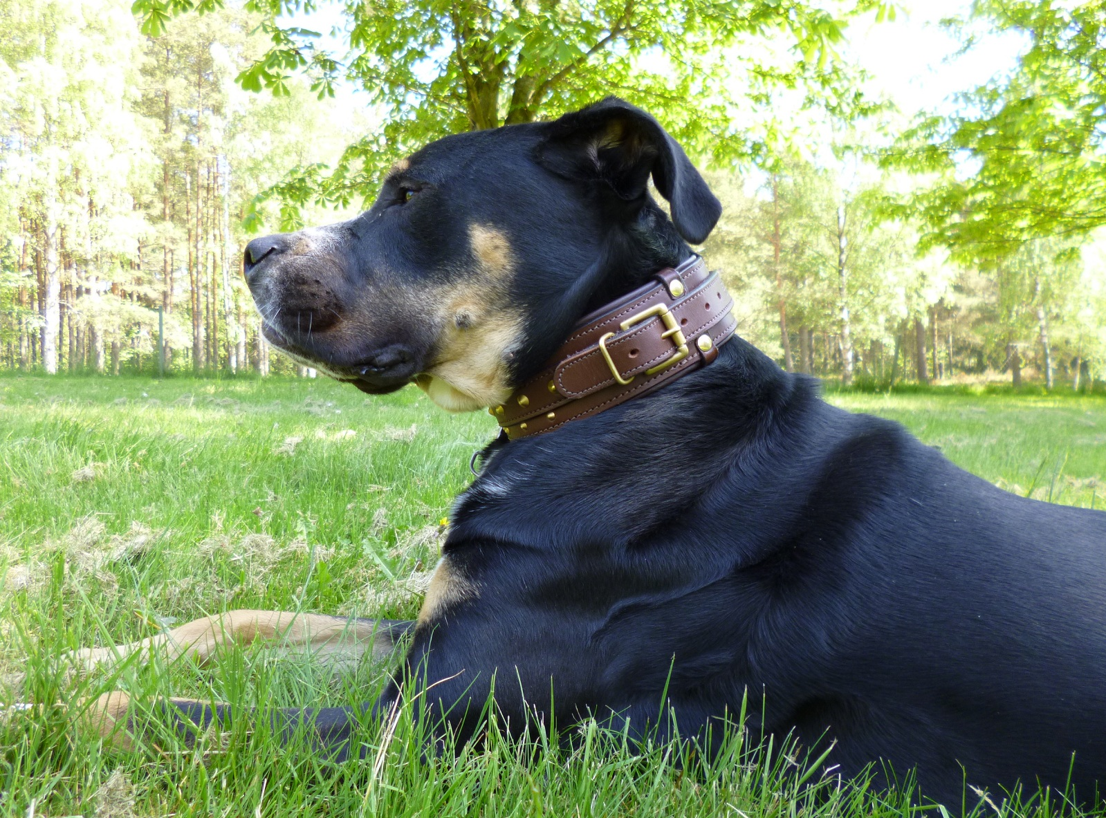 Two year old male Perro Dogo Mallorquín, Perro de Presa Mallorquín, Ca de Bou.